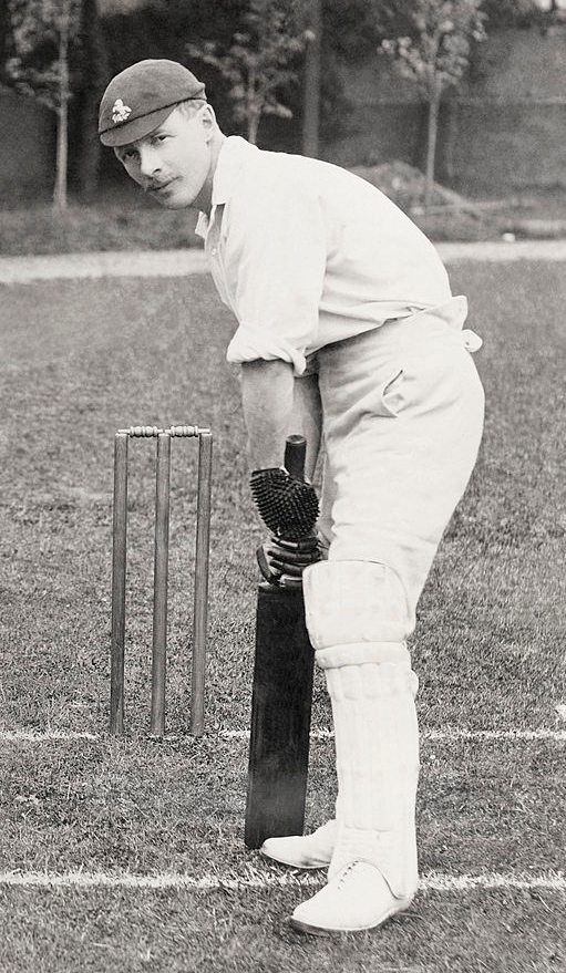 A vintage postcard featuring Kent cricketer Cuthbert Burnup, circa 1905.